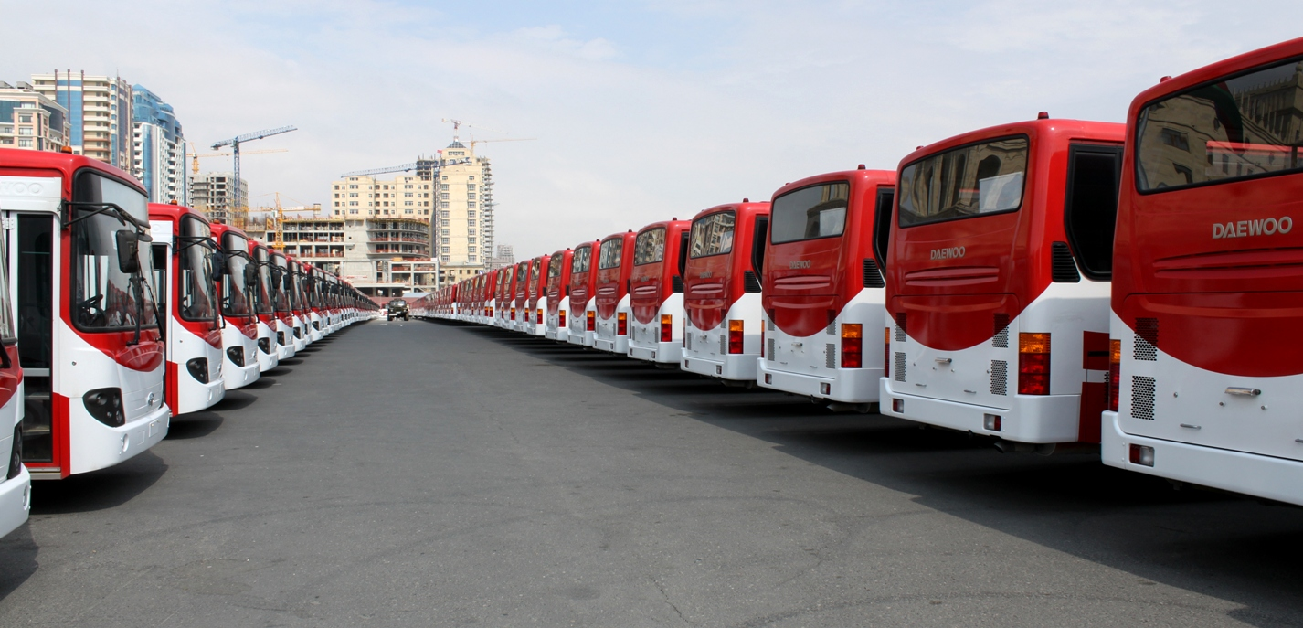 Baku bus